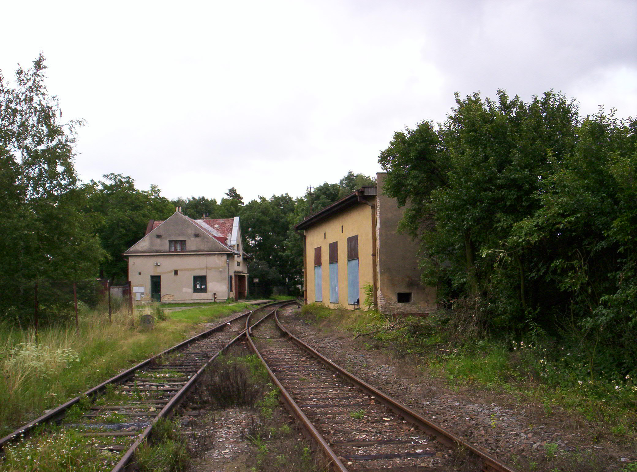 mochov - railway station, 2005 Česky: mochov - zeleznicni stanice, stav v roce 2005 - jeste v provozu